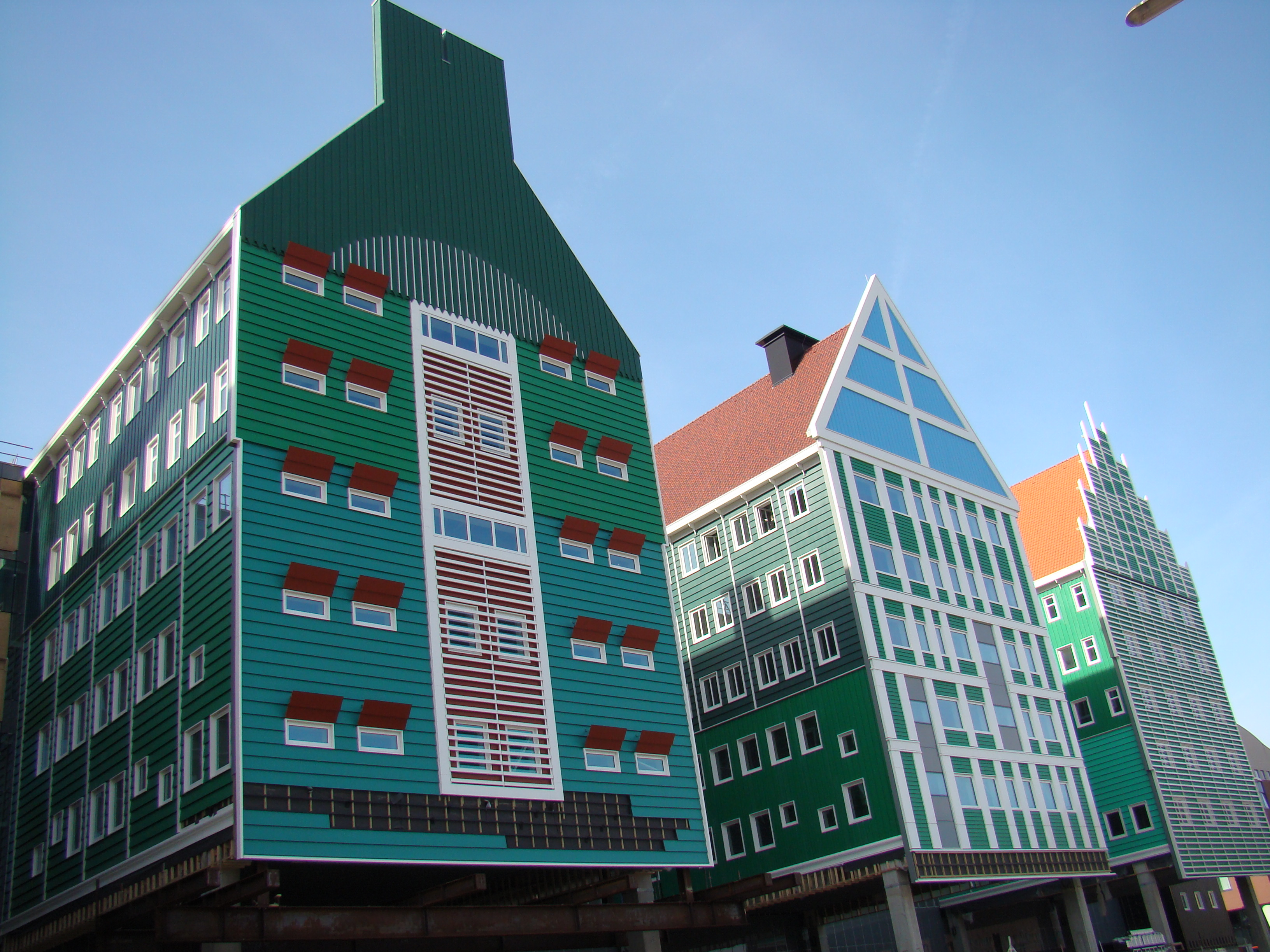 Cityhal Zaandam, Netherlands